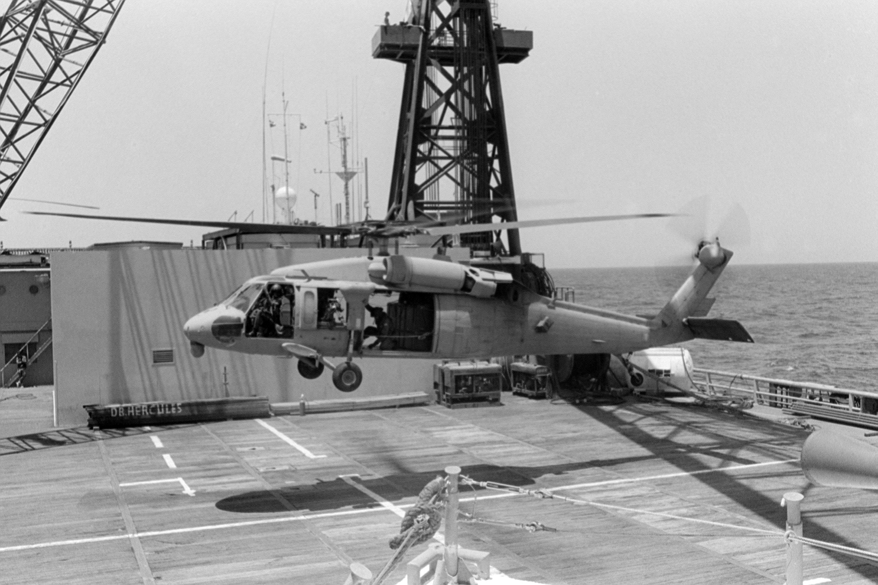 DN-SN-88-10165 A specially-equipped US Army UH-60 Blackhawk (Black Hawk) helicopter prepares to land on the deck of the barge HERCULES in the Persian Gulf.